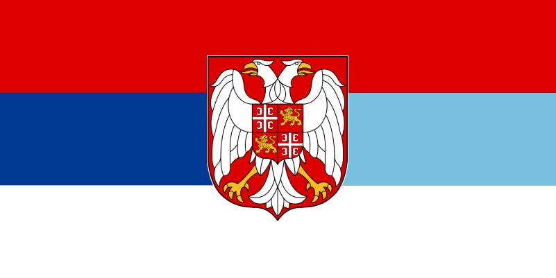 Flag of Serbia end Montenegro (1992–2004) (unoff)Српски (ћирилица): Застава СРЈ / СЦГ (1992-2004) (Незванична)Srpski (latinica): Zastava SRJ / SCG (1992-2004) (Nezvanična)